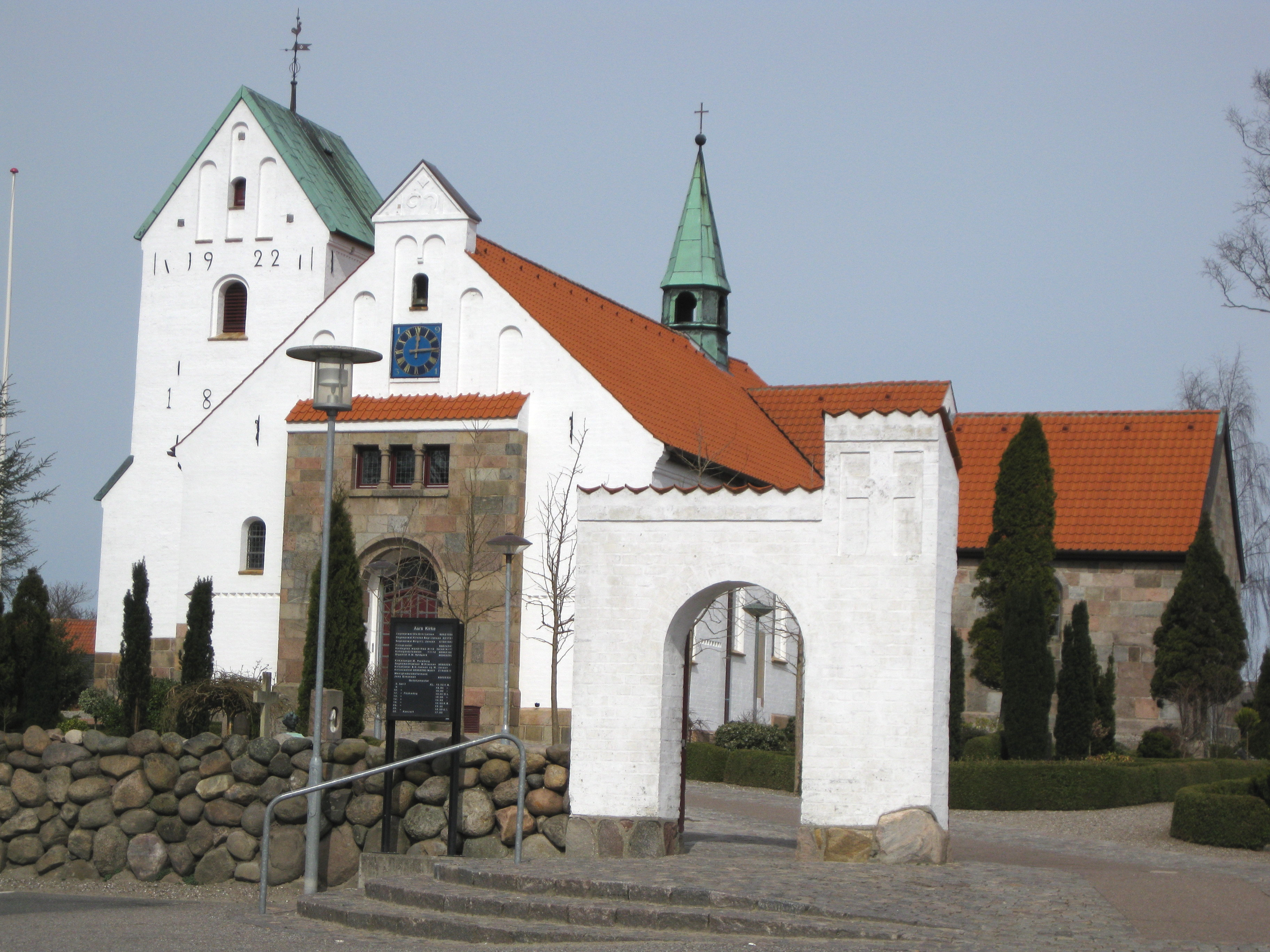 The church "Aars Kirke" in the small town "Aars". The town is located in North Jutland, Denmark.